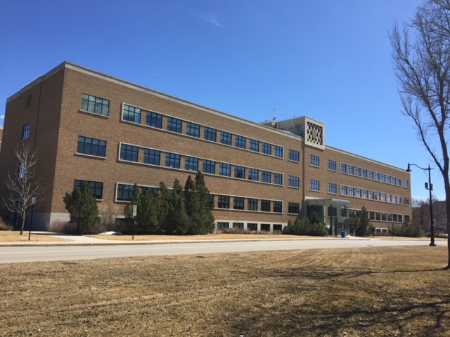 Walter Scott Building, Regina, Saskatchewan